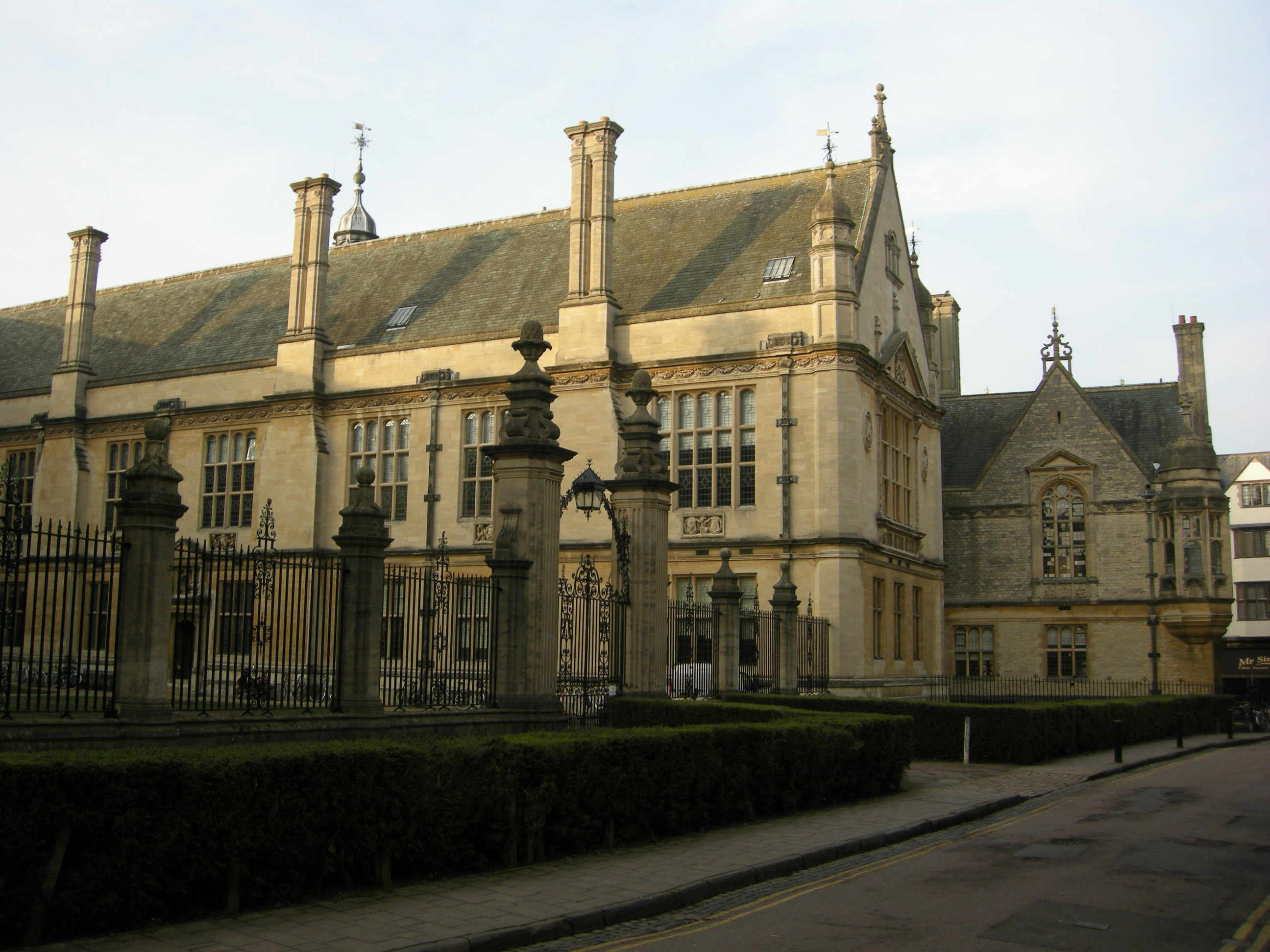 Oxford, Examination Schools